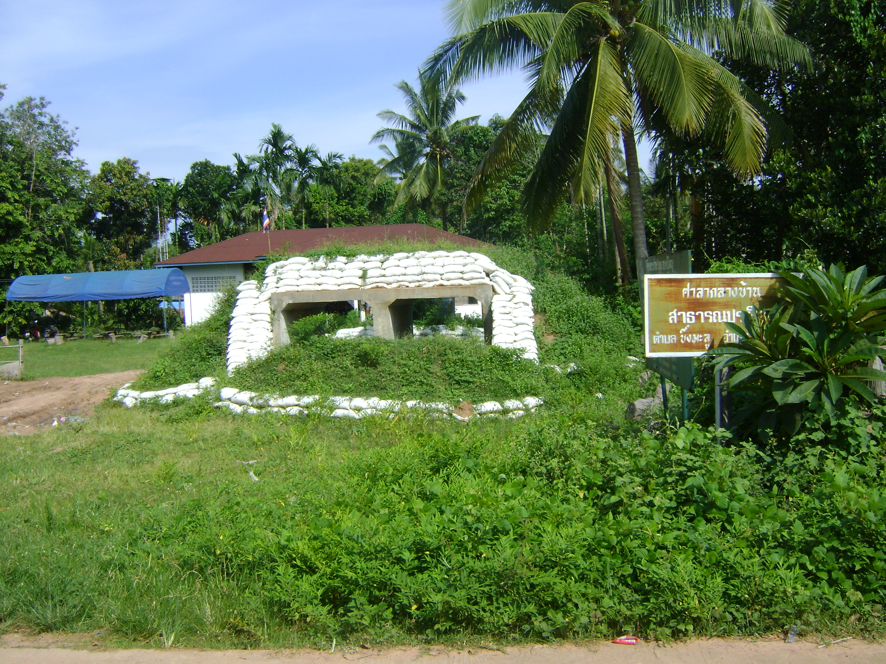 Bunker in Ban Si Sa At, Tambon Beung Malu, Amphoe Kantharalak, Sisaket Province, Thailand, near site of Cambodian--Thai border dispute